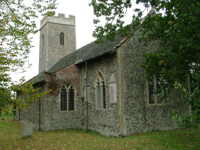 St. Faiths Church, Little Witchingham